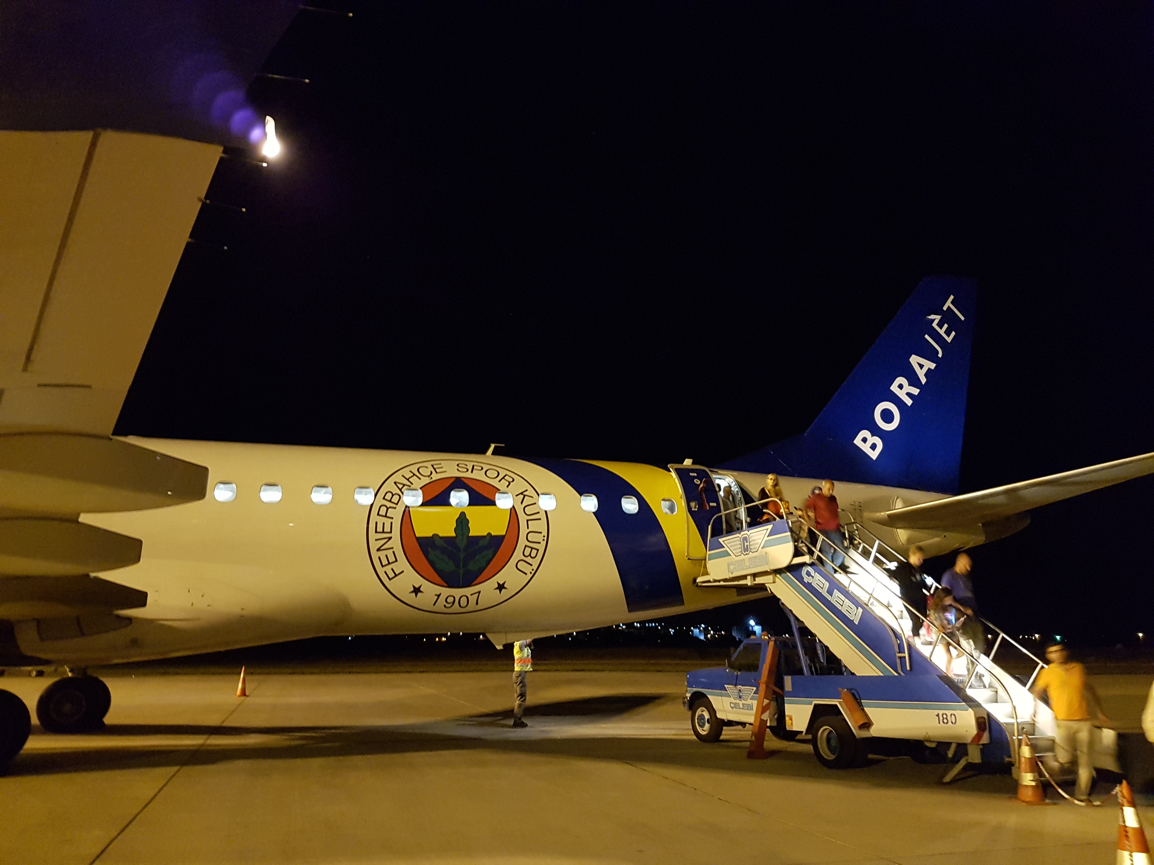 Borajet TC-YAT Fenerbahce painted Embraer ERJ-195AR (ERJ-190-200 IGW) at Çanakkale Airport